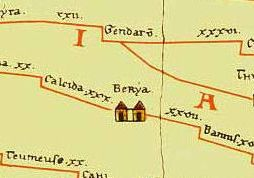 Tabula Peutingeriana, 1-4th century, Facsimile edition by Konrad Miller, 1887/1888, extract showing roads in Syria. Berya (variant of Beroia, Beroea) is present-day Aleppo.